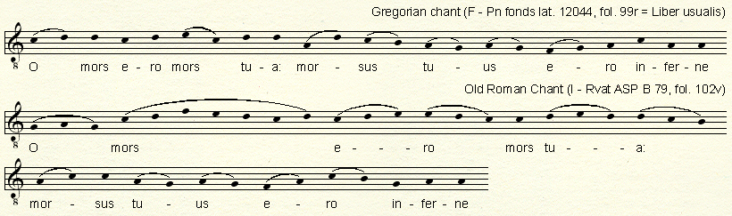 Antiphon "O mors". Comparison of Old Roman and Gregorian versions of the melody.